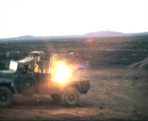 Launch of a SS.11 missile at Goubad, 30 km sough-east of Djibouti, in 1971.